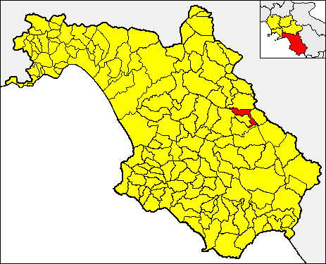 Locator map of the municipality of Sant'Arsenio (red) within the Province of Salerno